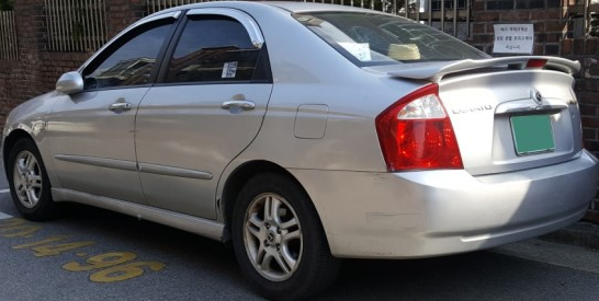 kia cerato